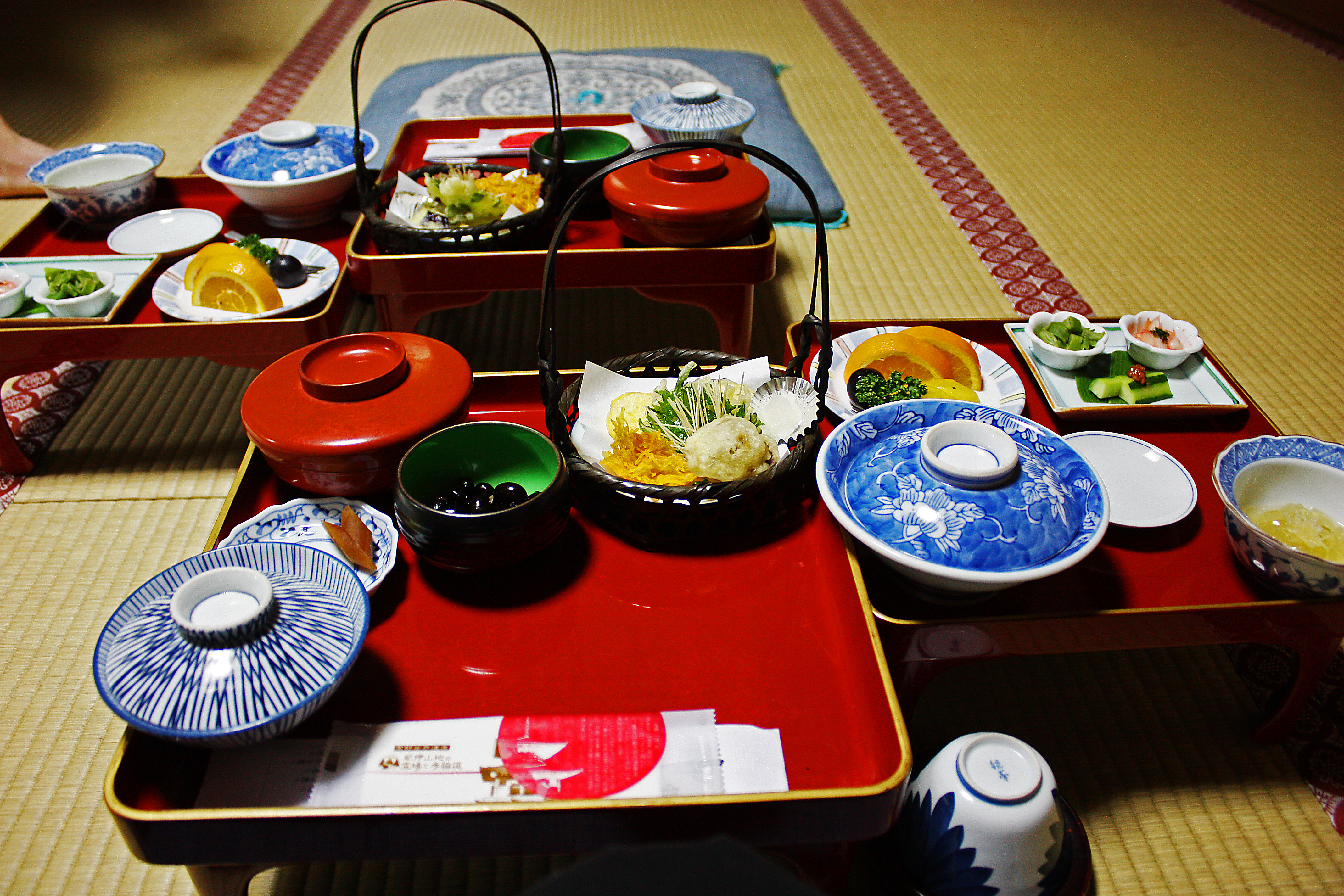 Vegetarian meal at Buddhist temple